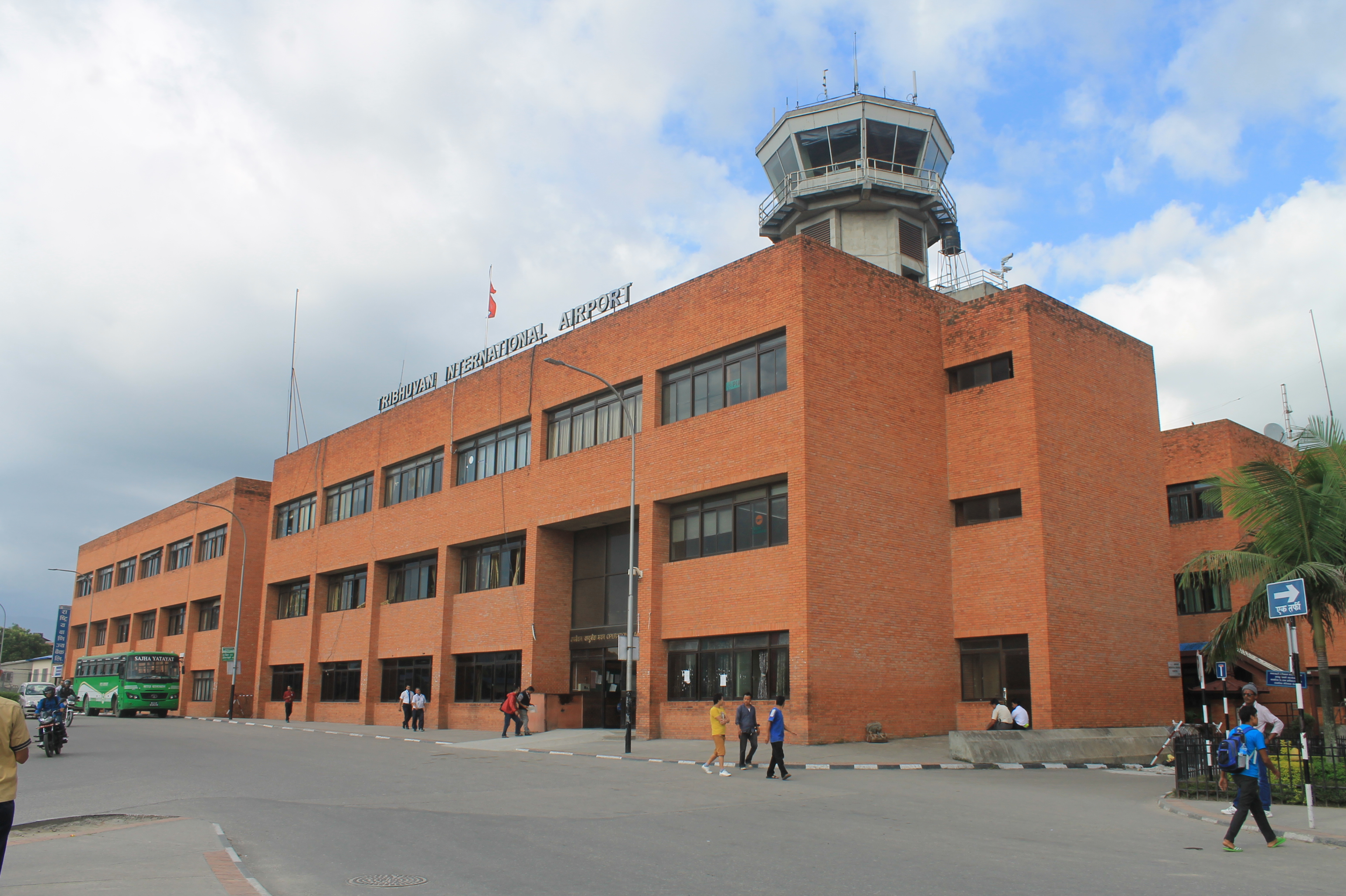 The Operation Airline Building at Tribhuvan International Airport in Kathmandu.